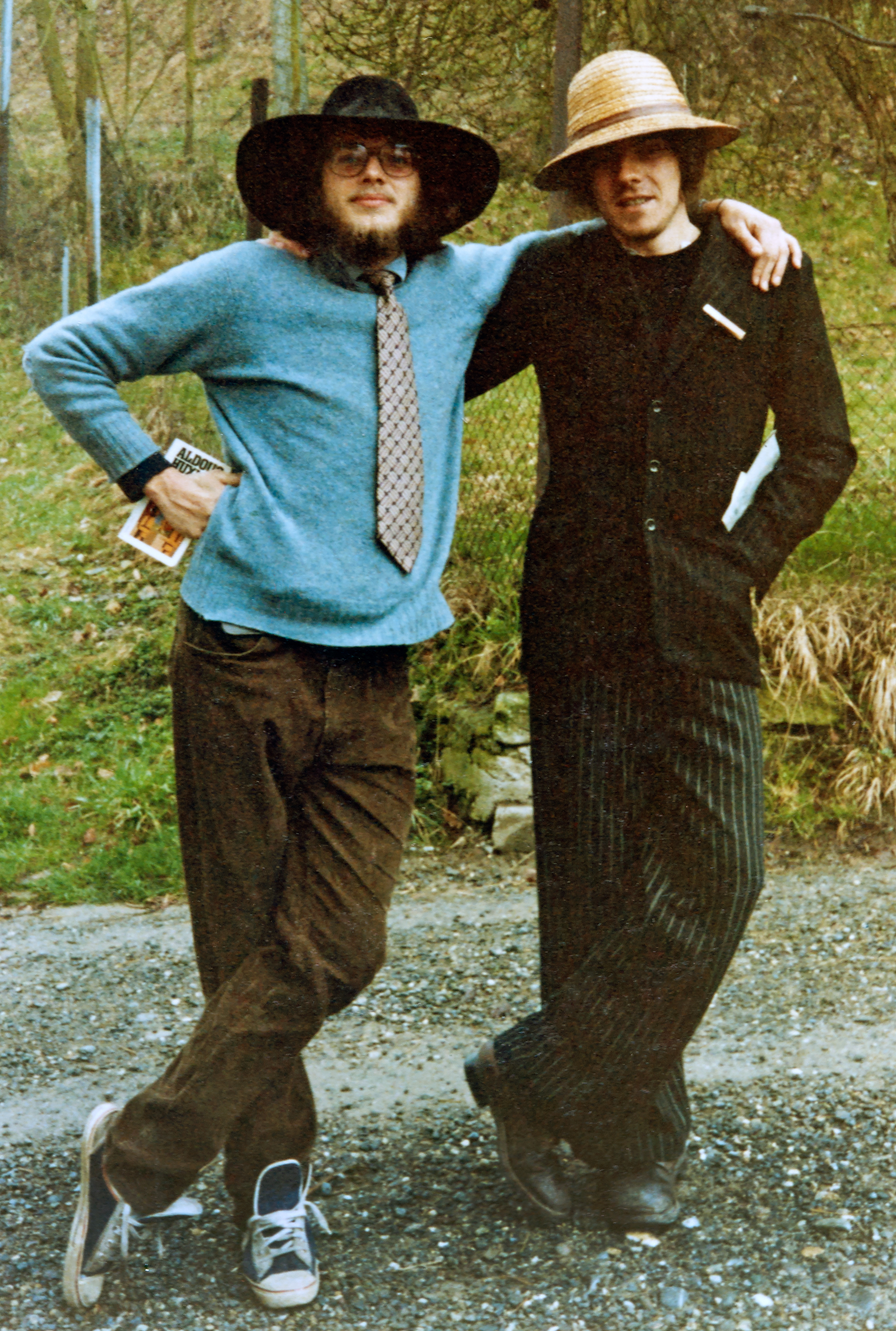 Mike van Audenhove and Bruno Jehle, Tannerhübel, Ammerswil, Switzerland, 1980